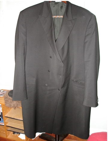 This is a picture of my Lange Rekel. It is made of 100% worsted wool, and is just meant to illustrate the Rekel article. Notice that the button pattern is right over left, counter to the usual style. This is because according to Jewish law, Jews should not wear their clothes in ways that are specific to non-Jews. As an aside, many Jews believe this piece of Halaka is out of date. Also, the fur hat in the background of the picture is not a Hasidic one, such as a Shtreimel, but is rather a faux fur version of a popular Russian cap called an Ambassador or Cossack.